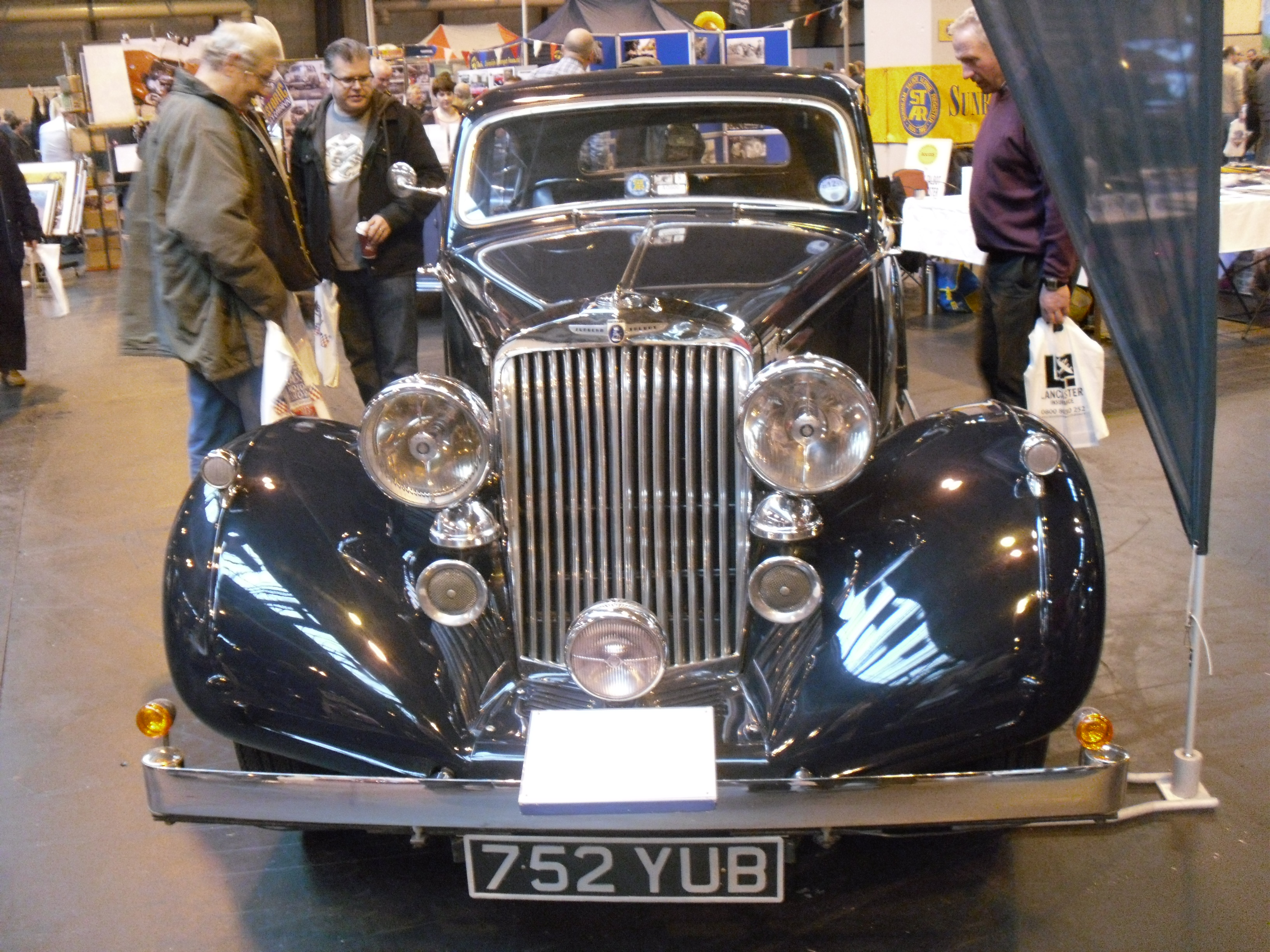 1939 Sunbeam-Talbot 4-litre 752 YUB